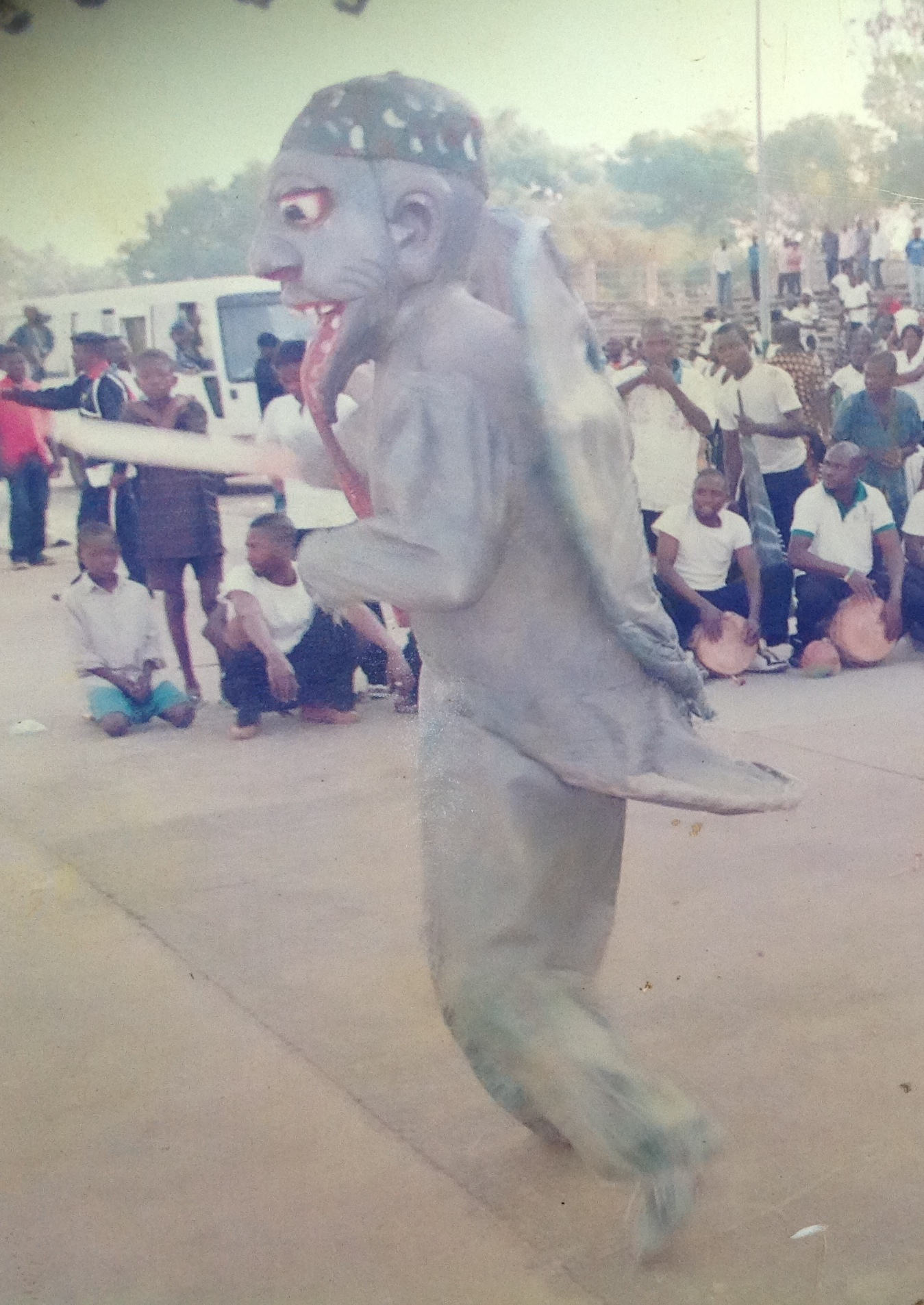 Kwagh-hir is a UNESCO Intangible Cultural Heritage of Humanity